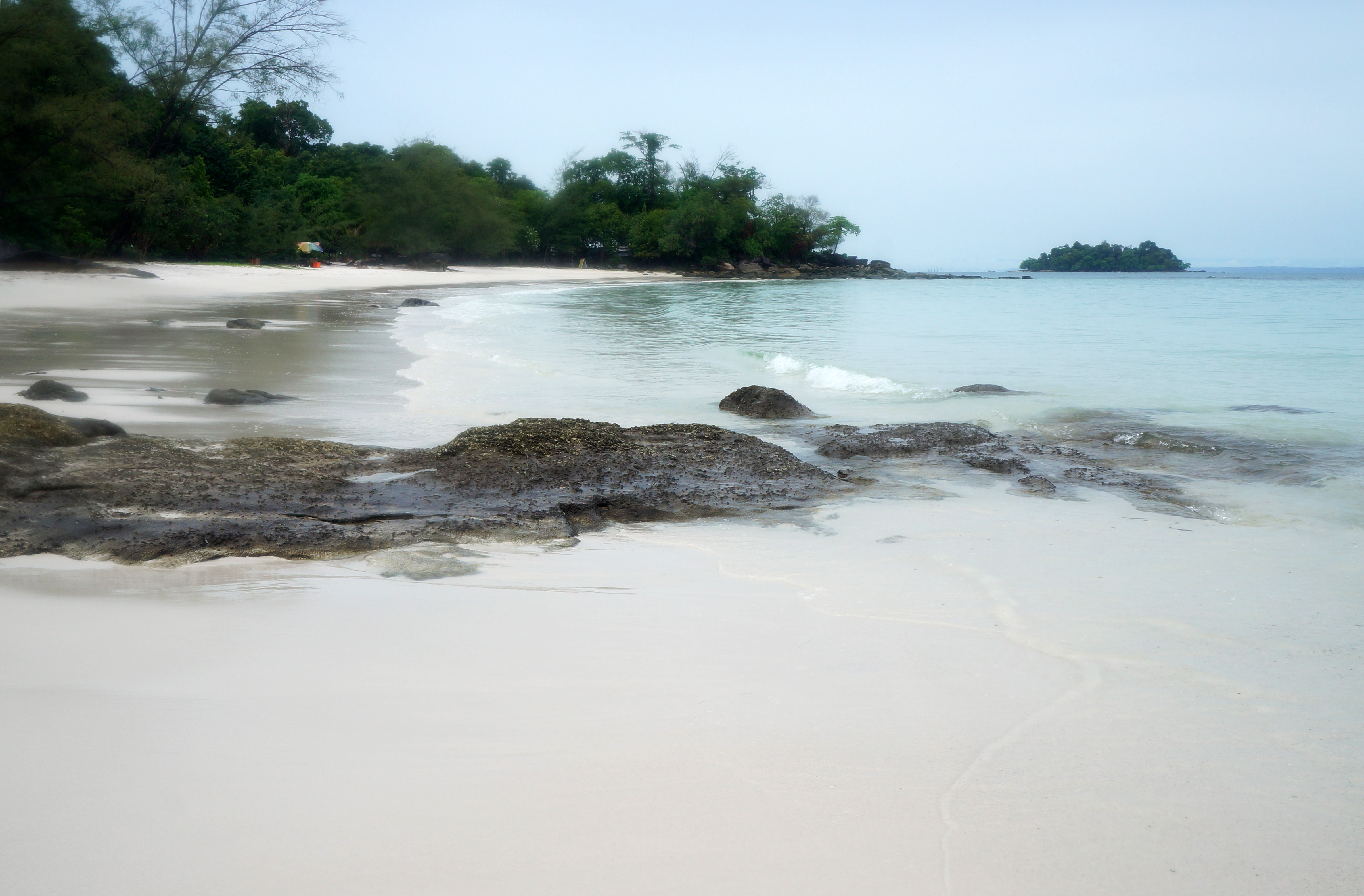 A photo of Koh Tuich Island off the coast of Koh Rong Island in Cambodia